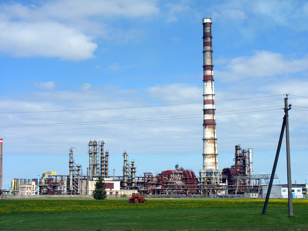 ORLEN Lietuva (ex Mažeikių Nafta) 2006 m. gegužės 17 d.